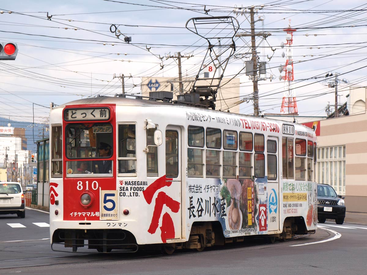 Hakodate Transportation Bureau type 800 at Matsukazecho.